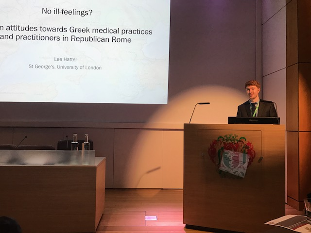 History of Medicine Society, Student prize winner, Norah Schuster prize, one of three winners March 2017 at Royal Society of Medicine, London